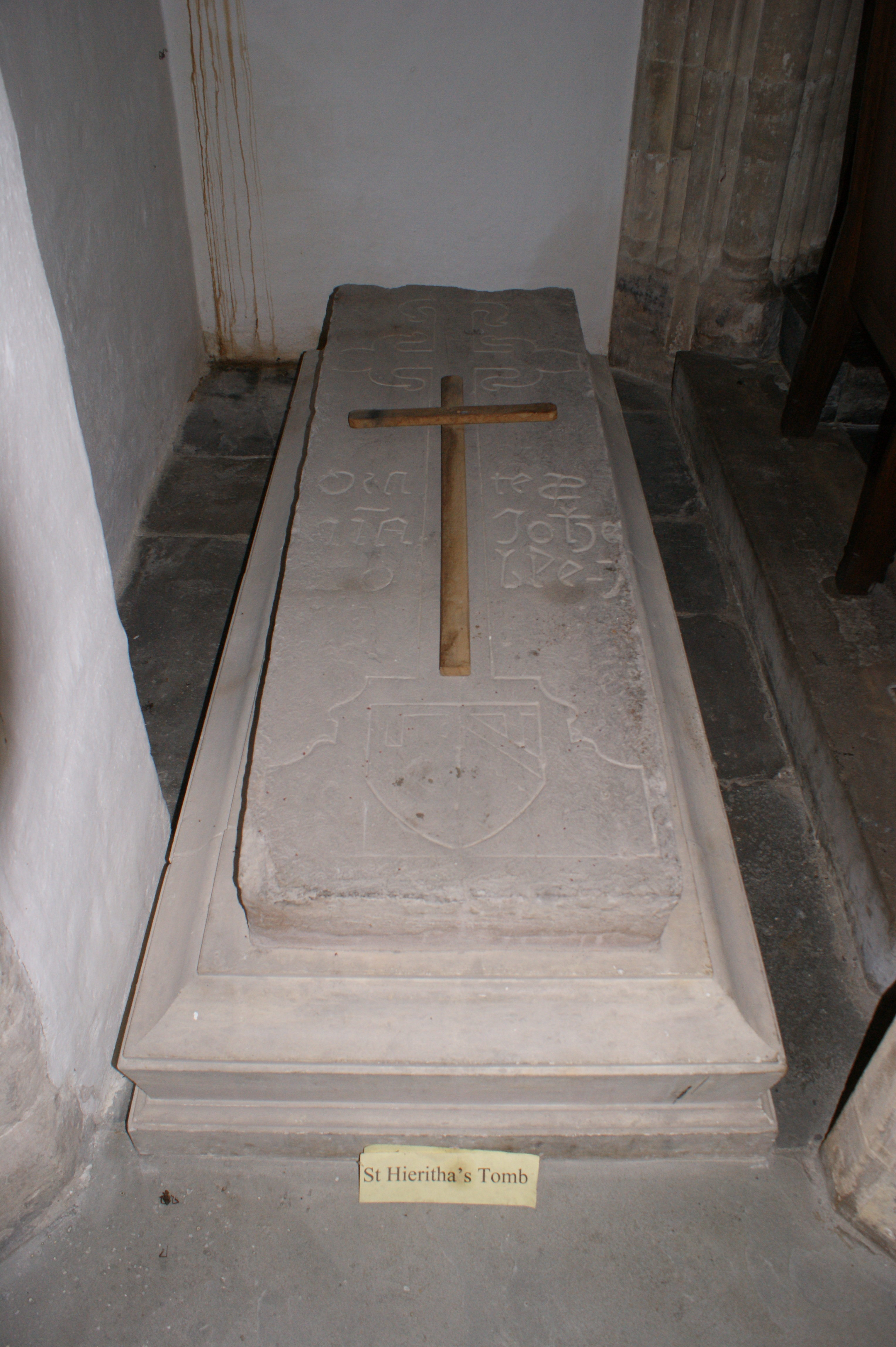 The tomb of St.Heiratha (a.k.a. St.Ulrith) in the Early 16th Century Perpendicular church of St. Heiratha's, Chittlehampton, 09/13. St. Heiratha was a Celtic peasant girl who was a Christian but was blamed for a drought by the majority pagan Saxon viilagers who promptly sliced her to bits with scythes! But the spot where her remains lay then saw a spring bubble-up. So she was made a saint!